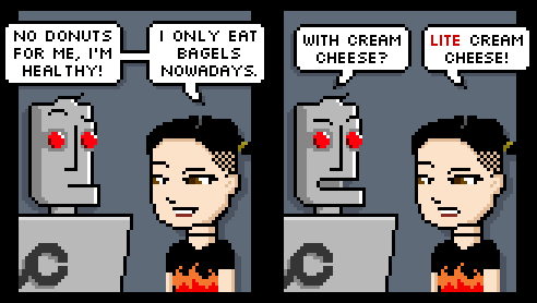 Two panels from a page of Diesel Sweeties by Richard Stevens. This is a crop of File:Dieselsweeties 01583.png